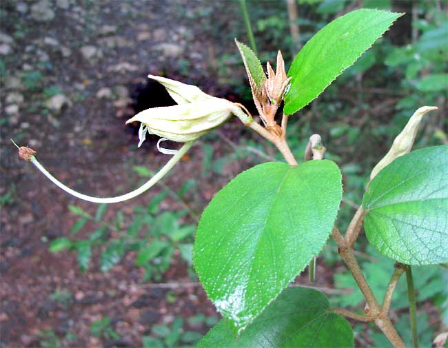 The very unusual flowers of a plant from the genus Helicteres. The long stalk is actually the ovary's stalk (i.e. stipe). The male parts are also on top of it. See also: the fruits